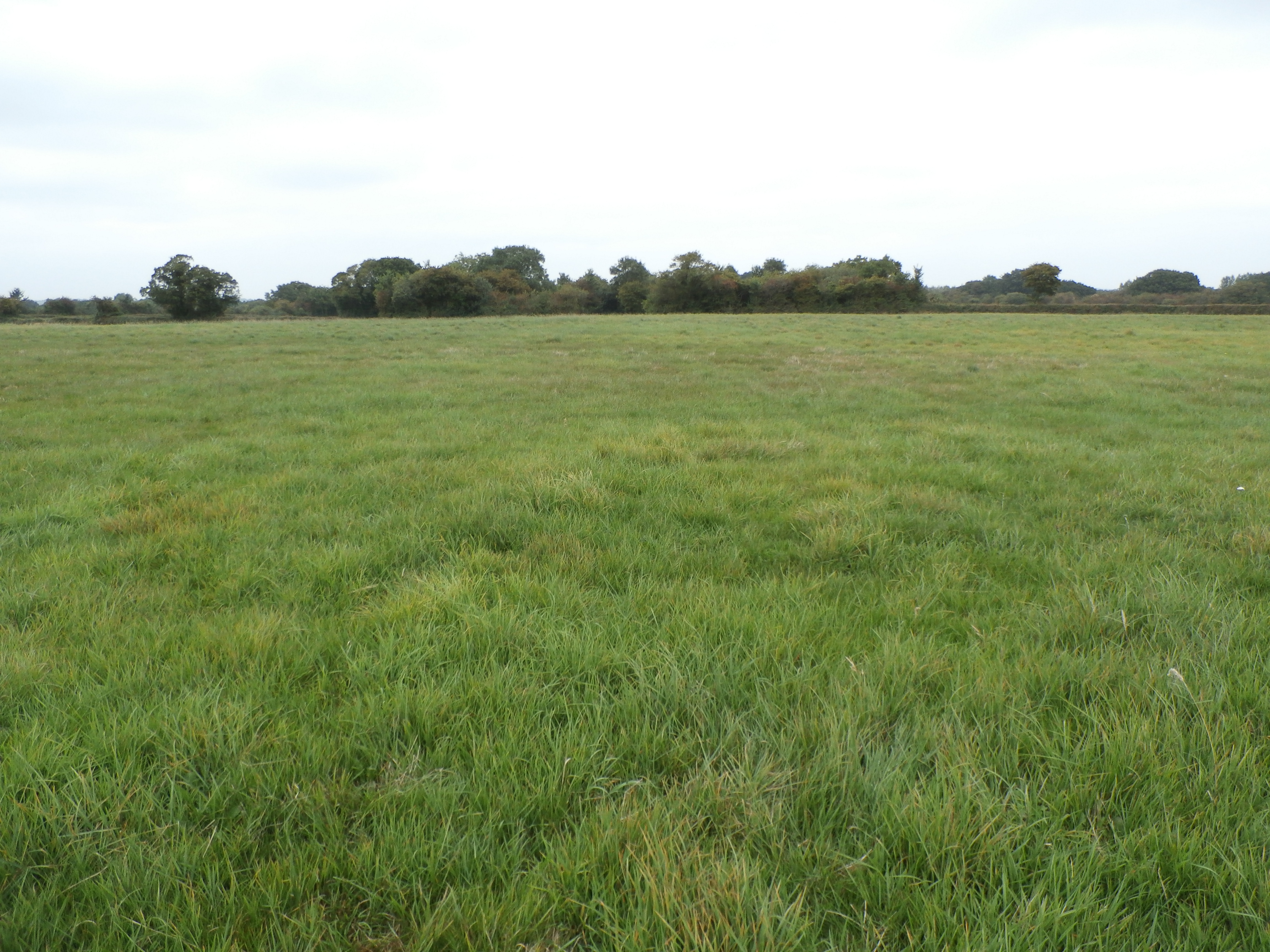 View from south of overgrown moated site of Merryfield House, Ilton, Somerset, ancient seat of the Wadham family, demolished 1618.